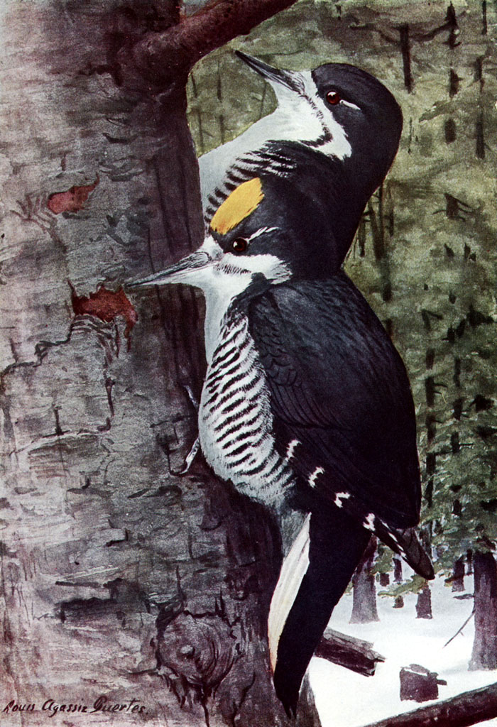 Black-backed Woodpecker Picoides arcticus, offset reproduction of watercolor